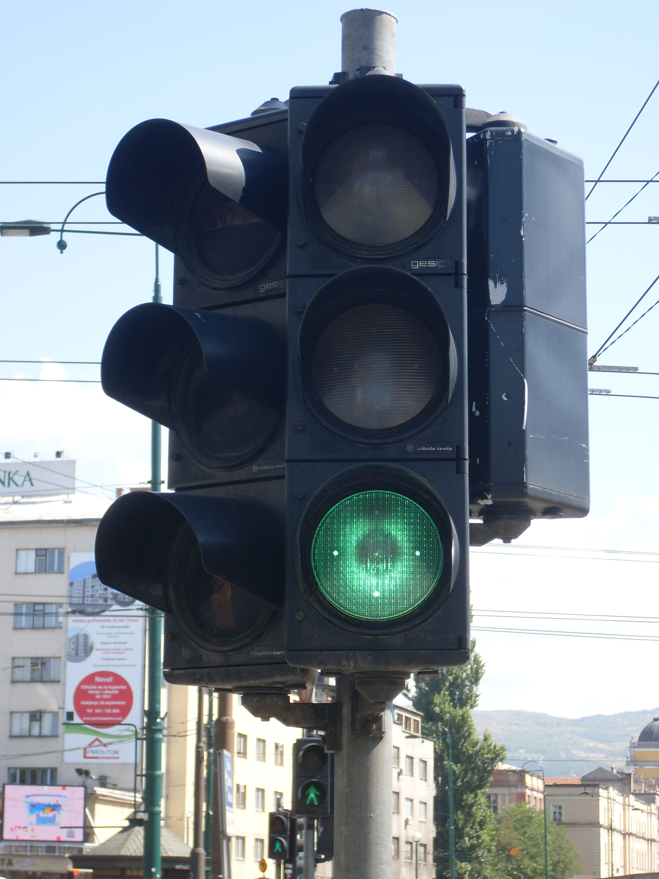 Traffic lights, Sarajevo